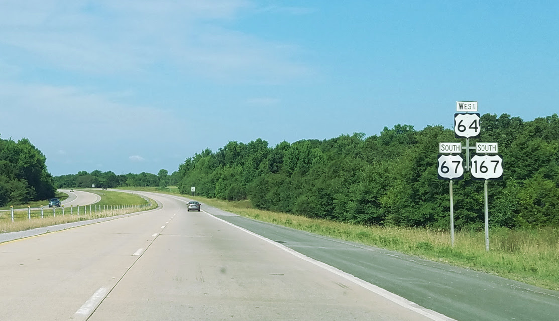 Concurrency of U.S. Routes 64, 67, and 167 in White County, Arkansas.